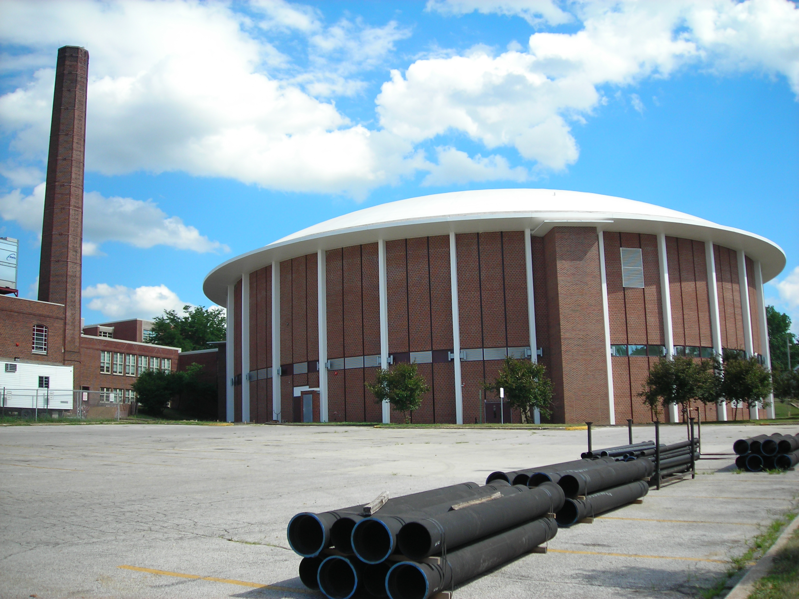 Roundhouse Gymnasium, Abraham Lincoln High School, Des Moines, Iowa.